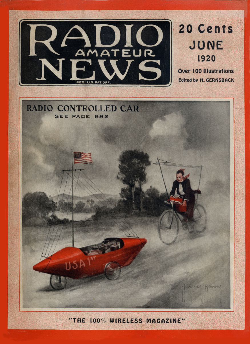 Radio Amateur News, June 1920. Volume 1, Issue 12. The Radio Controlled Bus. The device was invented by a Mr. Gavin of Tuckahoe NY. The 180 pound vehicle was controlled pressing a radio telegraph key a certain number of times. Published by Experimenter Publishing Company Inc. Hugo Gernsback, President and Editor; Sidney Gernsback, Treasure; R. W. De Mott, Secretary. Cover illustration by Howard Brown. The 9 by 12 inch magazine has 64 pages. The page numbers were on a volume basis; this issue has pages 673 to 736. Image:Radio Amateur News Jun 1920 pg674.png Image:Radio Amateur News Jun 1920 pg722.png Radio Amateur News was founded by Hugo Gernsback in July 1919 and the title was changed to Radio News in July 1920. The magazine was sold to B. A. MacKinnon in an April 1929 bankruptcy auction. Radio News was acquired by Ziff-Davis in 1938. The title was changed to Radio & Television News in 1948 and then to Electronics World in 1959. It was merged into Popular Electronics in January 1972.